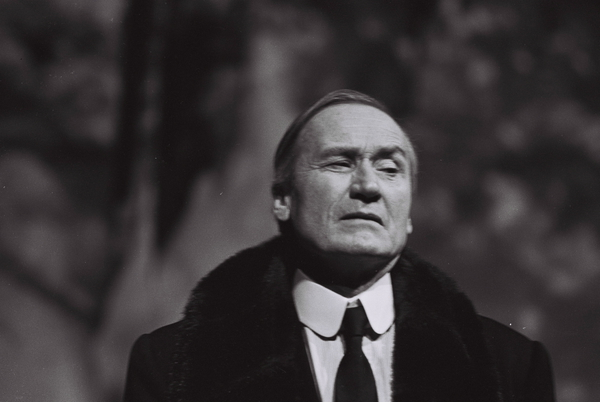 Norwegian actor Knut Wigert in the title role at Nationatheateret's performance of Henrik Ibsen's "John Gabriel Borkman" in 1979. (Photo: Frits Solvang)